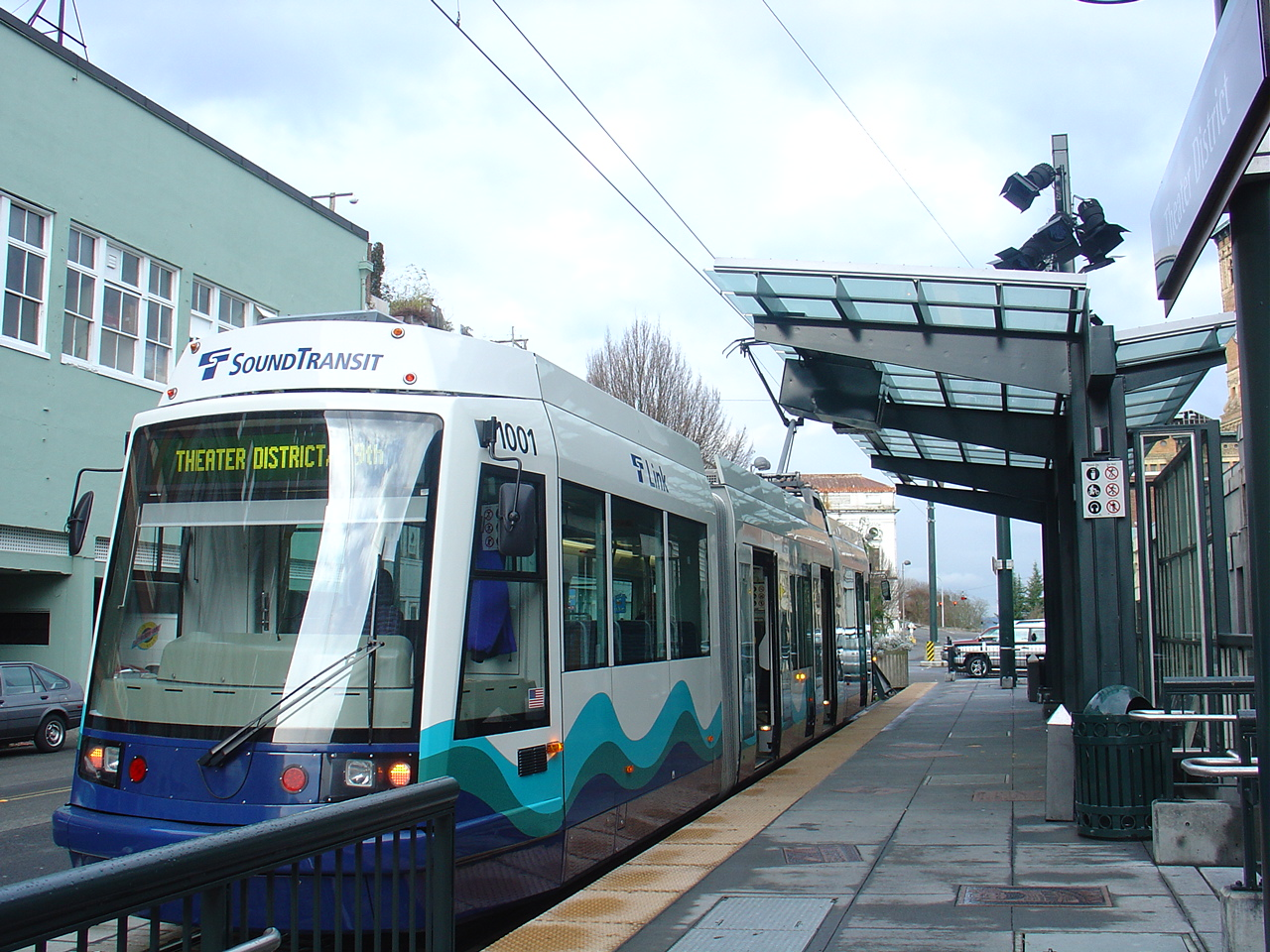 A Tacoma Link train at its terminus, South 9th Street/Theater District Station.